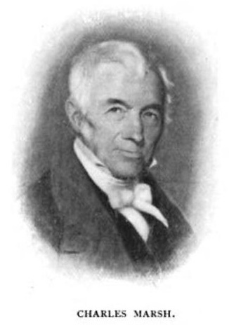 Charles Marsh, U.S. Representative from Vermont